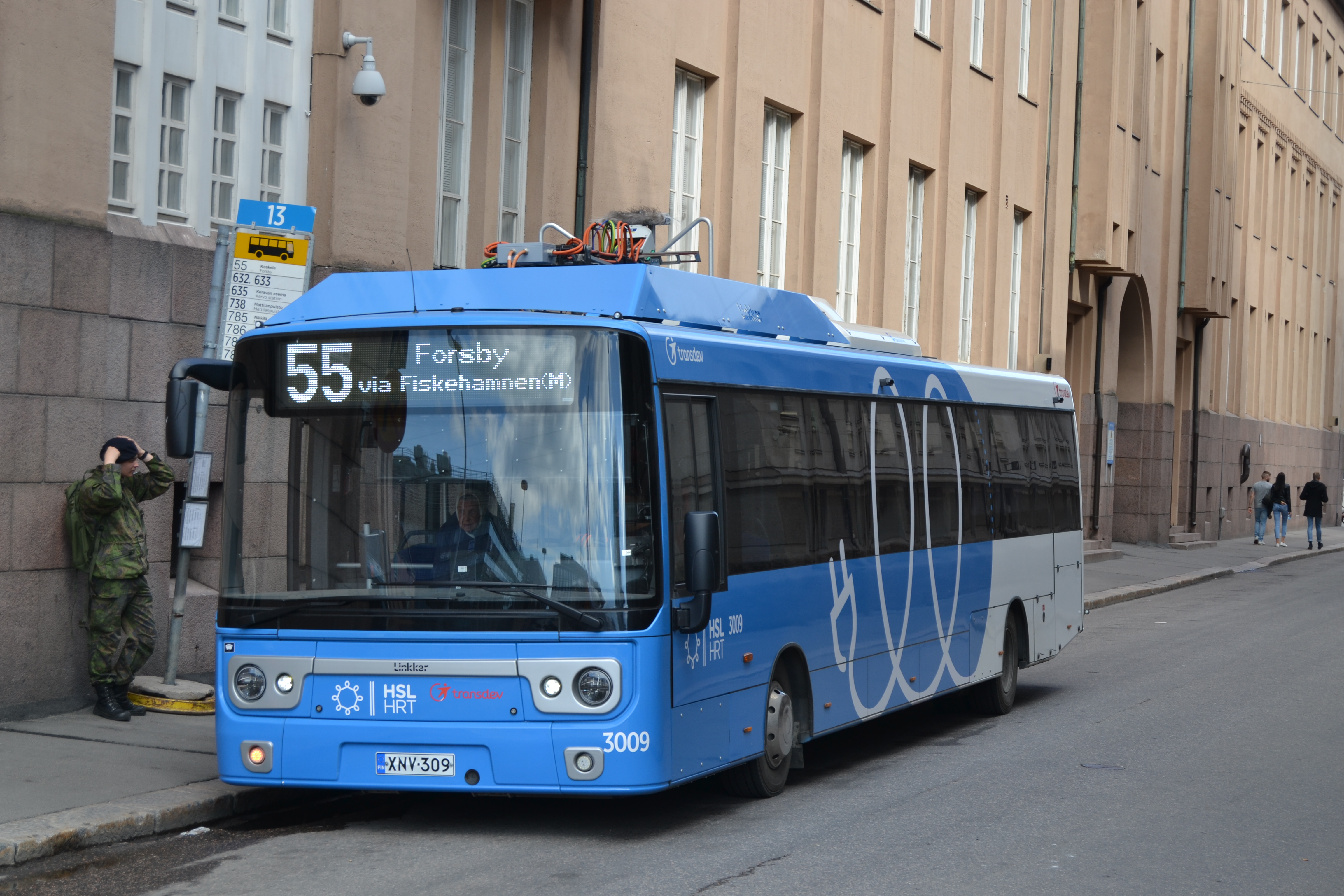 Transdev Linkker 13LE bus (XNV-309, #3009, 2016) at Rautatientori